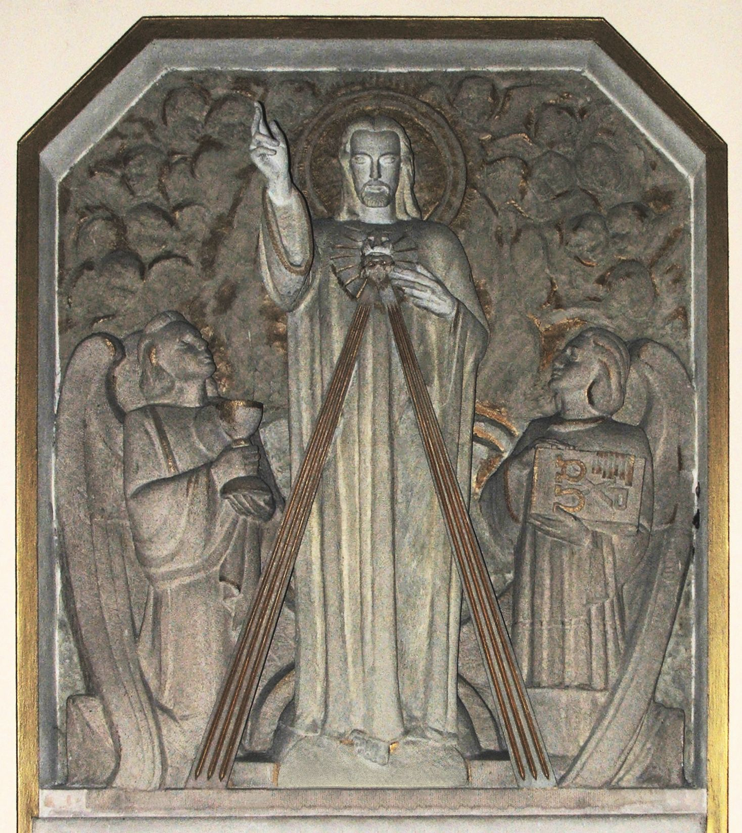 Merciful Christ, a sculpture by Wojciech Durek in Wyższe Seminarium Duchowne, Ołtarzew, Poland. This image is hardly ever sculpted, that's why it is rather exceptional in this form. Photo by Tilia, March 2006. Picture upgraded by Bastian.